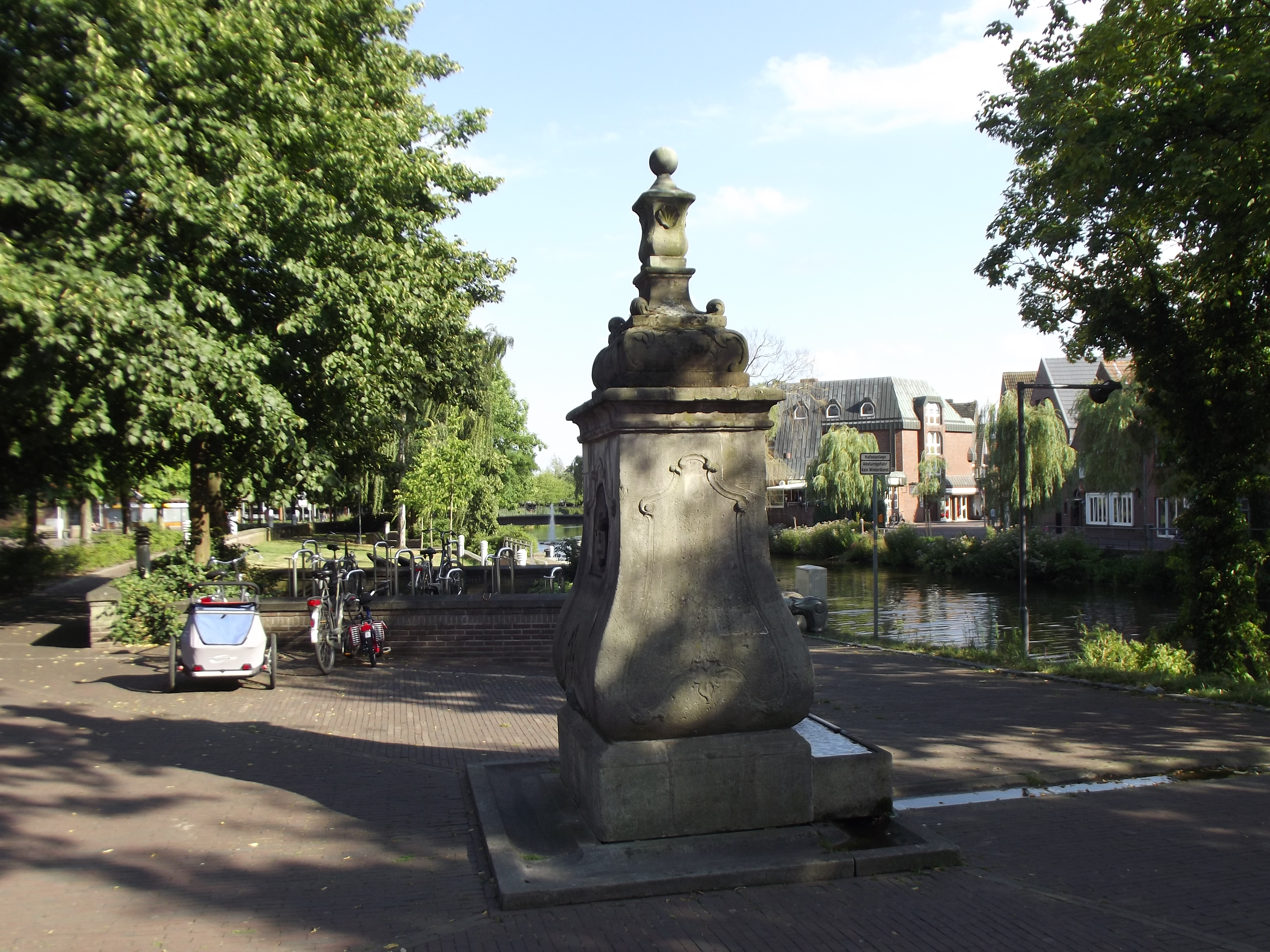 A restored old well which still provides clear water of good quality